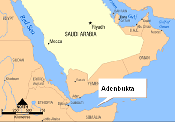 Map of Gulf of Aden. Norwegian: Kart over Adenbukta.